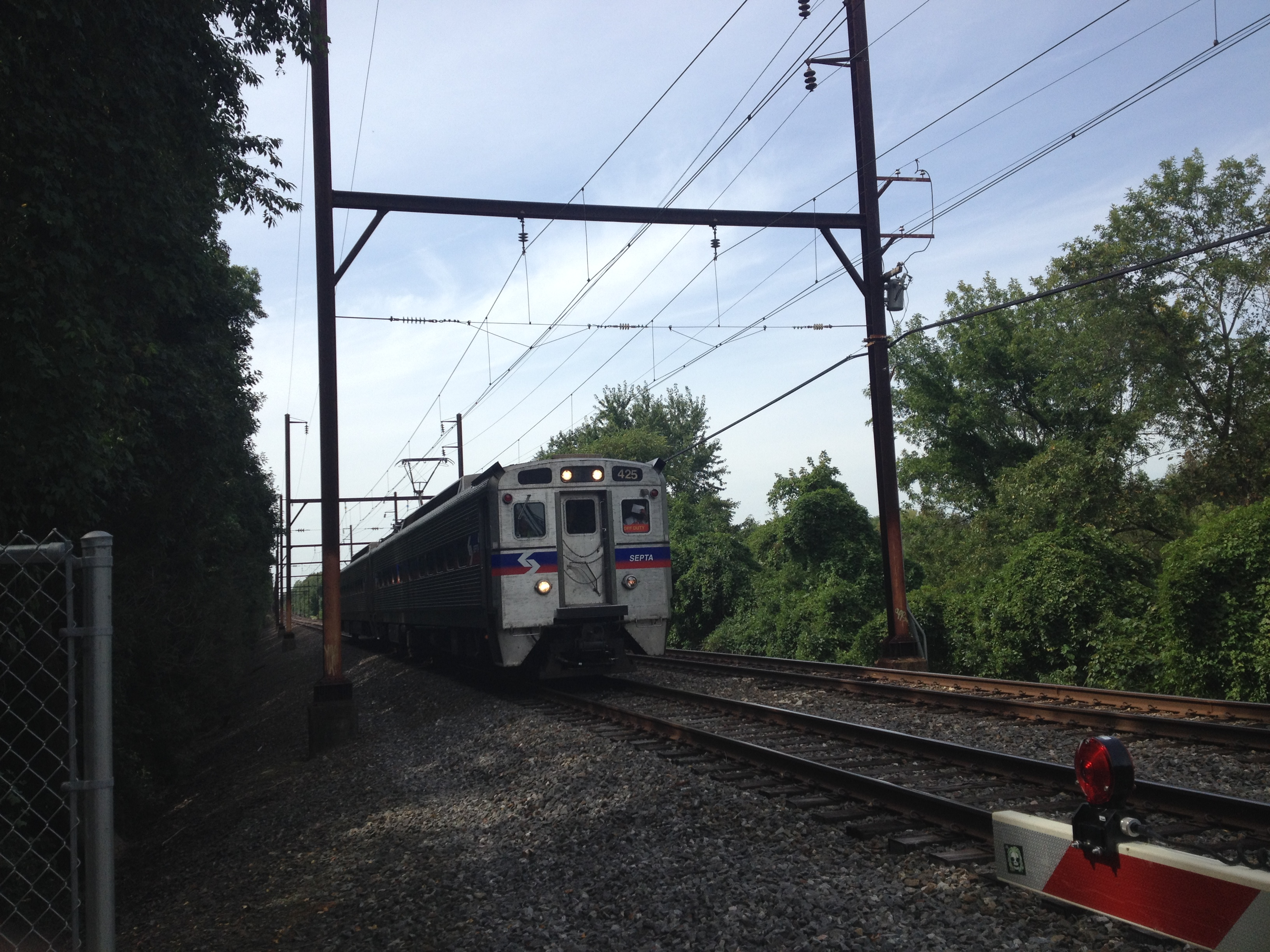 An outbound off-duty train on SEPTA's West Trenton Line crossing the Pennypack Trail between the Meadowbrook and Bethayres stations, led by GE Silverliner IV 425